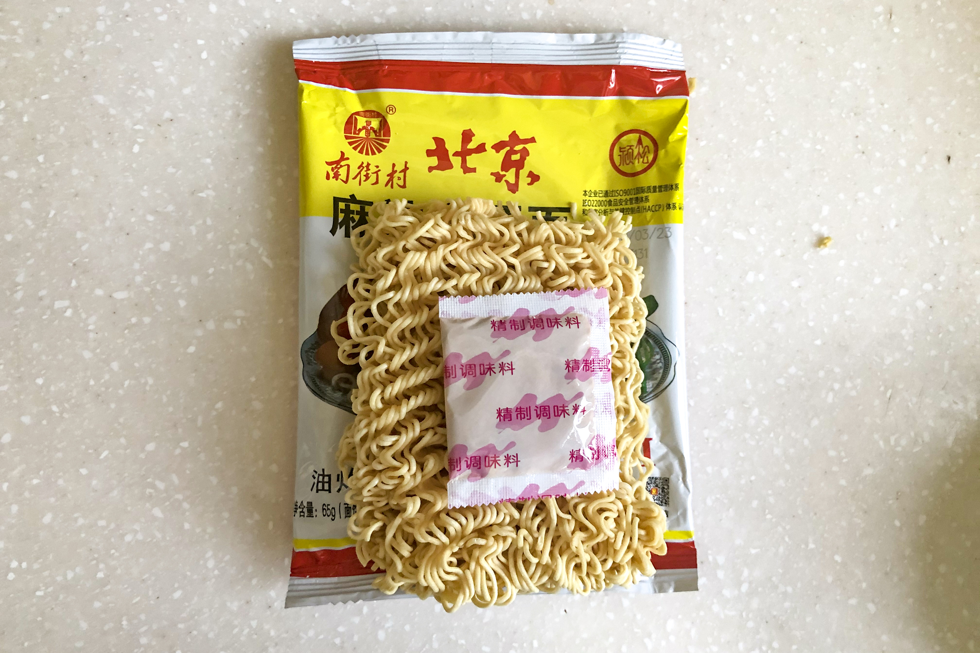 Nanjiecun is a village in Linying County, Luohe, Henan. Instant noodle production started there in 1989, and this is the most basic product - CNY1 per packet (65g).